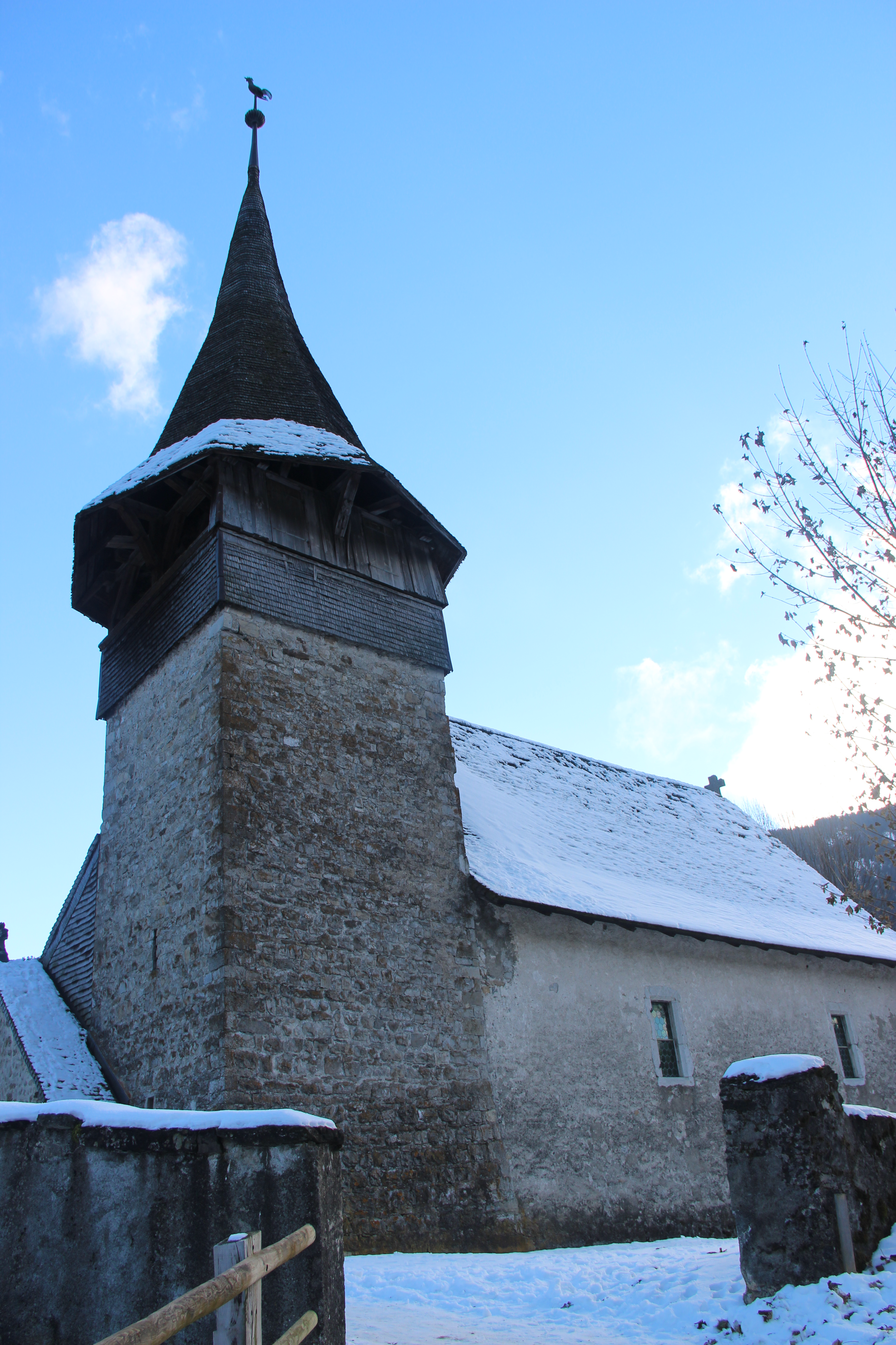 Church of Rossinière